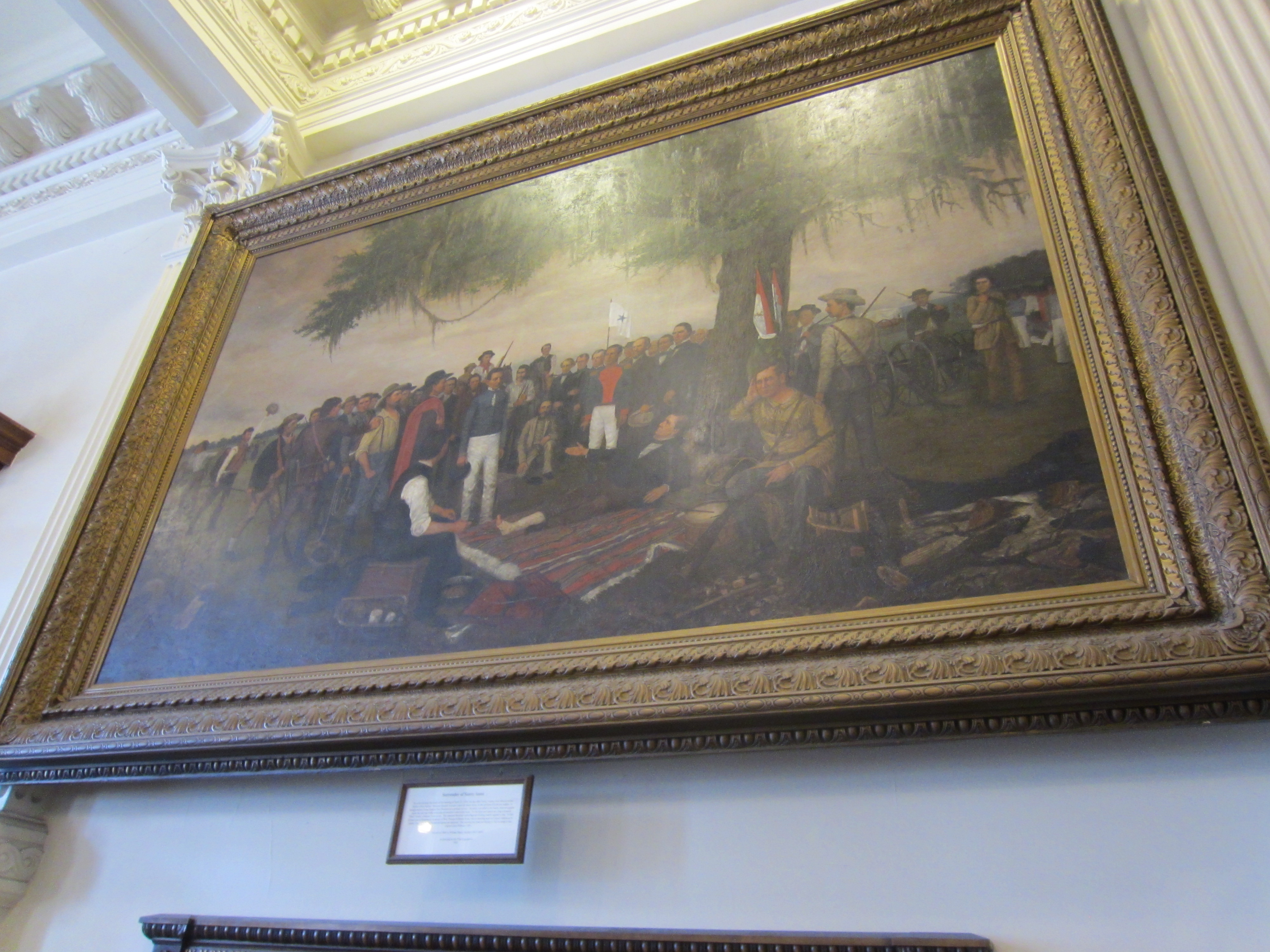 Austin, Texas (August 30, 2018)